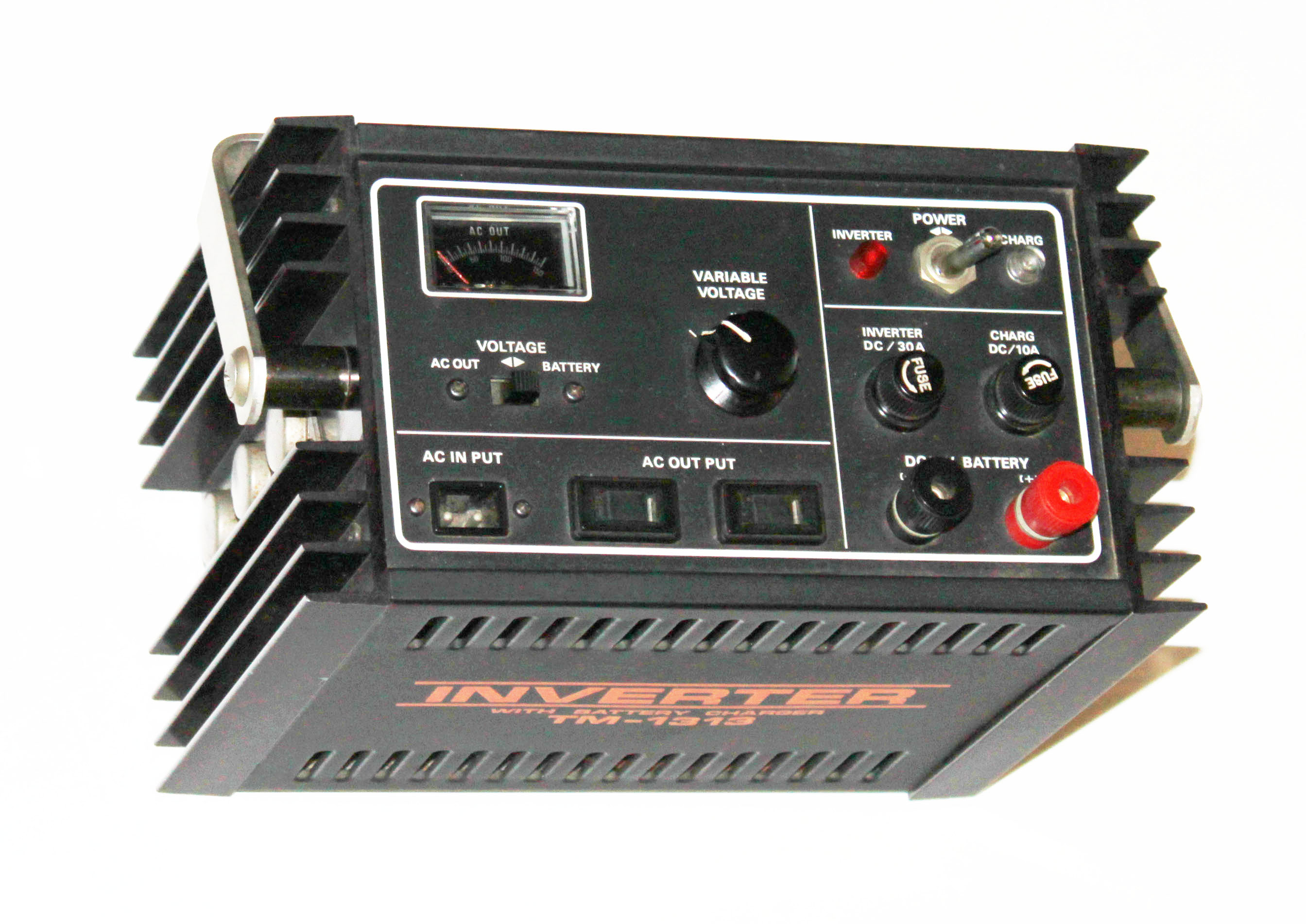 One of the application of the Royer circuit